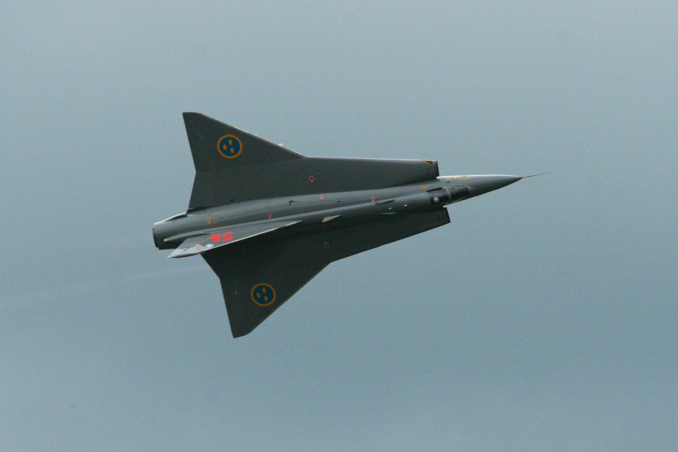 What a classic profile! Operated by the Swedish AF Heritage Flight. msn 35-556. 2012 Malmen Airshow, Sweden. 03-06-2012